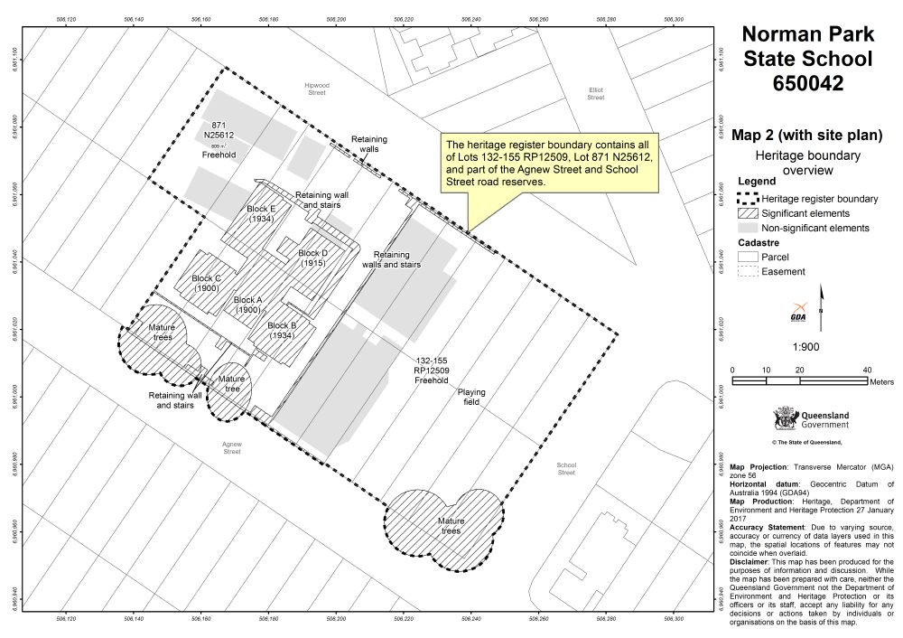 650042 - Norman Park State School - map 2 (2017)